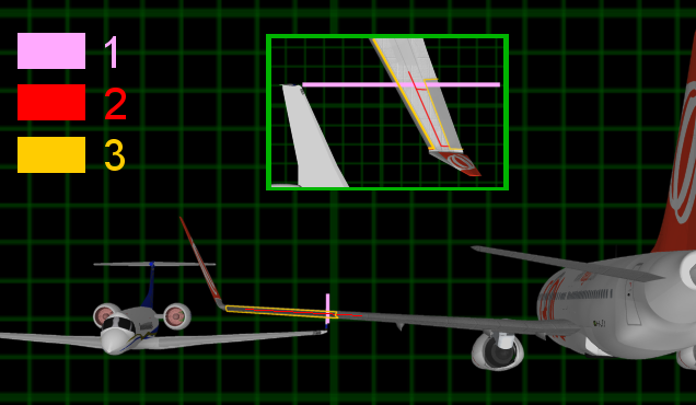 Gol Transportes Aéreos Flight 1907 diagram of impact. 1. Impact 2. Hydraulic lines 3. Control surfaces